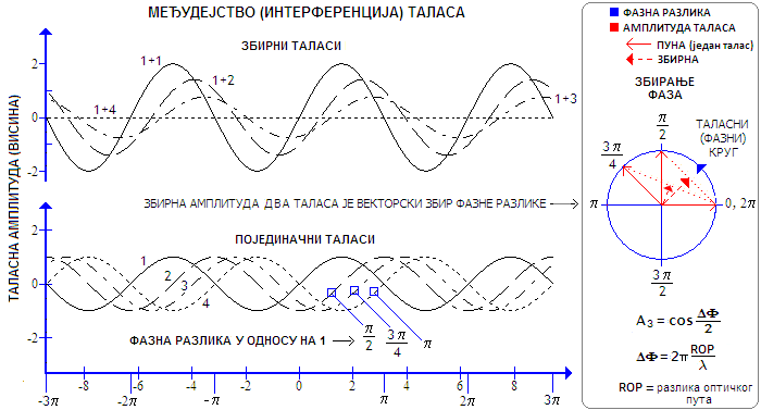 Међудејство (интерференција) таласа и фазна разлика